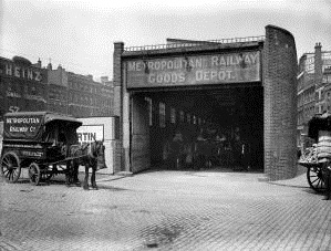 Metropolitan Railway Vine Street depot entrance in 1910-1915. Photograph marked as unknown on the LT website. The entrance structure is shown on Google maps to be still in existence (2013)